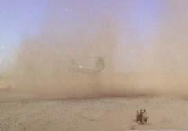 Source:NAVAL POSTGRADUATE SCHOOL] (NPS) COCOM-OSD Helicopter Brownout. Helicopter Brownout is a $100 million per year problem, leading to significant hardware loss, injuries, and fatalities. The NPS project objective is to find ways to define landing zones which will have reduced probability of producing brownout. The challenge is to remotely sense soil and surface characteristics in denied territory. Both civilian remote sensing systems and national technical means were and are being studied. NPS identified a system that meets the requirements and is testing it for suitability. The payoff for this work will be to dramatically reduce the loss rate for men and hardware, particularly in the SOCOM and CENTCOM AORs.